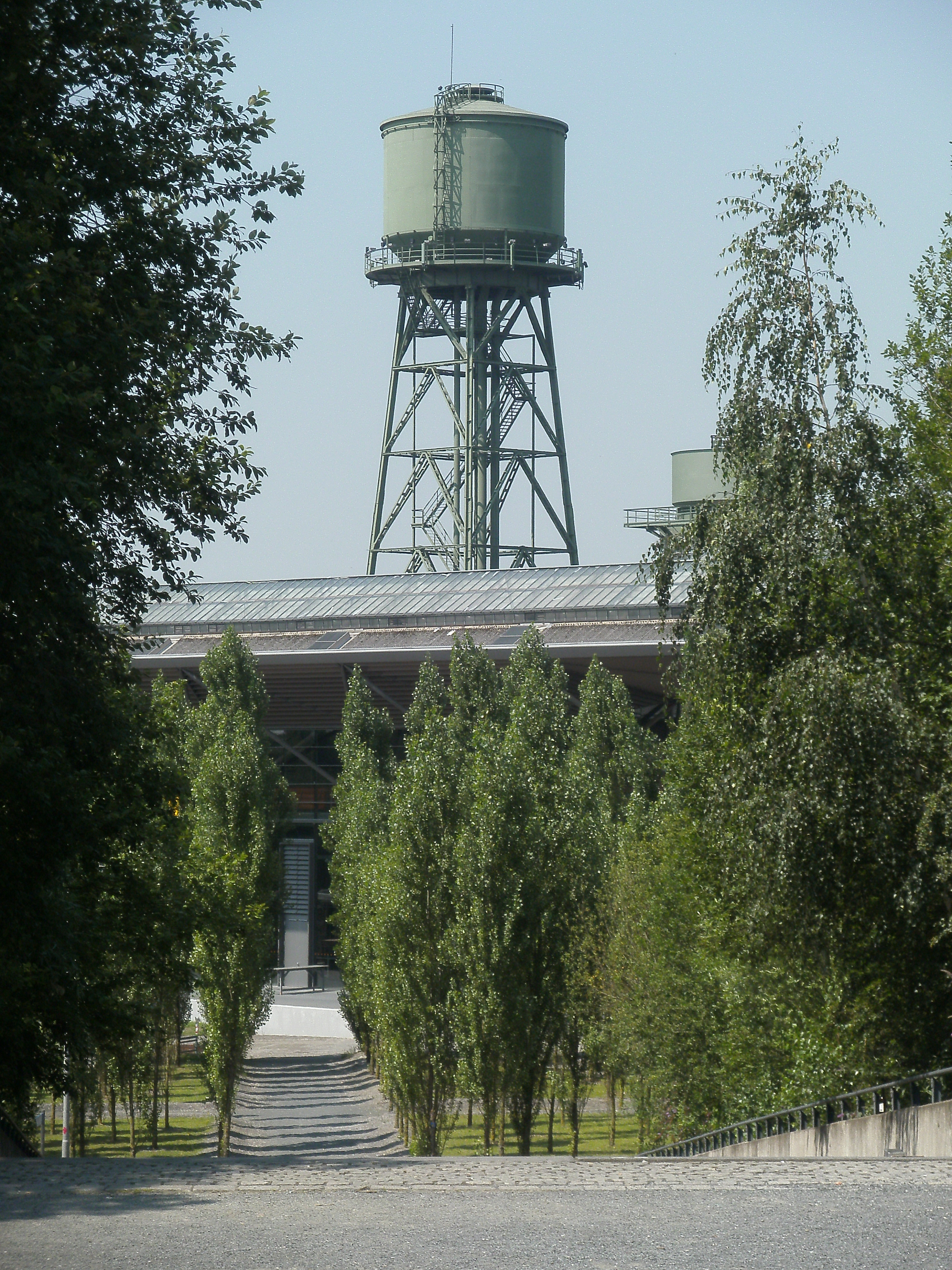 View of the water tower and Centennial Hall in the Bochum Westpark.